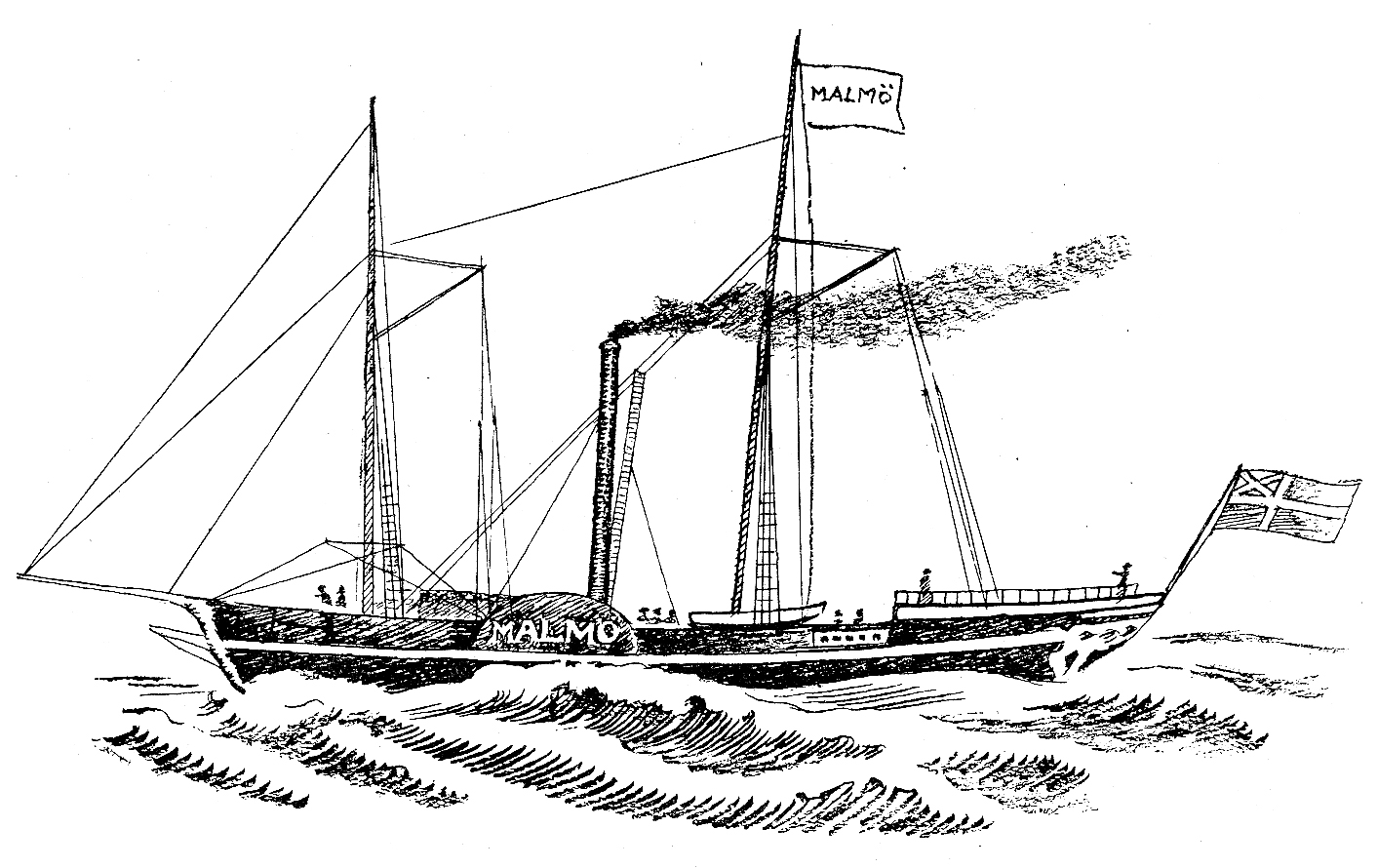 The steam ship Malmö 1838